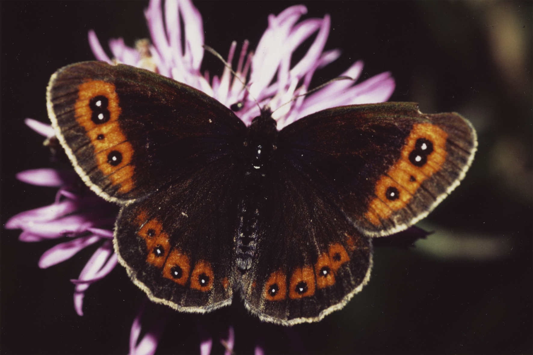 Scotch Argus (Erebia aethiops)